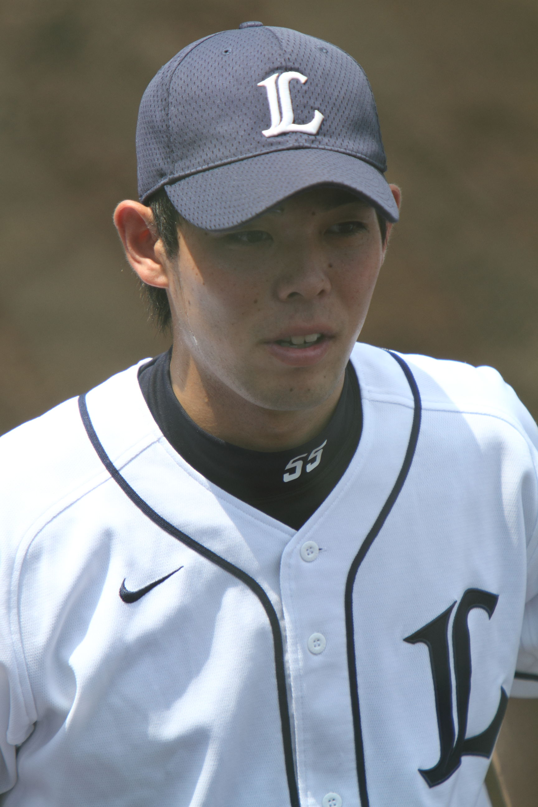 Shogo Akiyama, outfielder of the Saitama Seibu Lions, at Seibu Baseball Ground II.